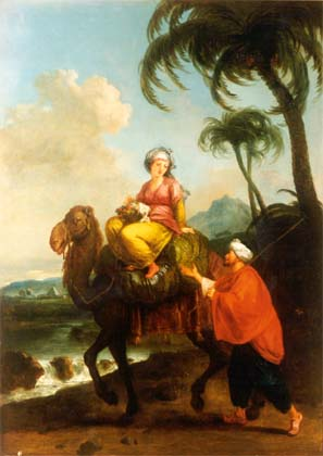 Couple with a Dromedary